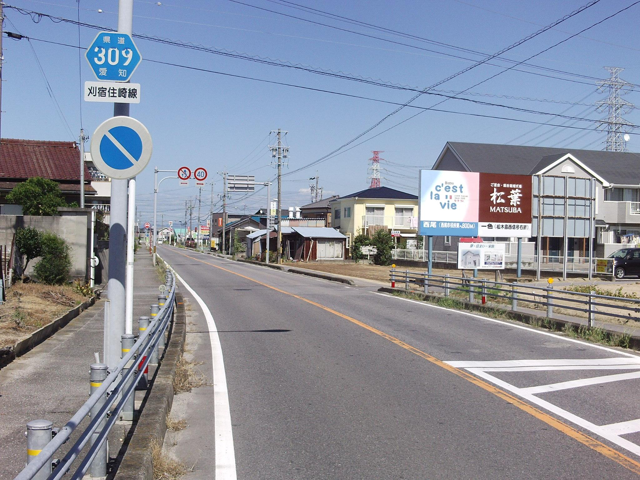 Aichi prefectural road No.309 in Kariyadocho, Nishio, Aichi.